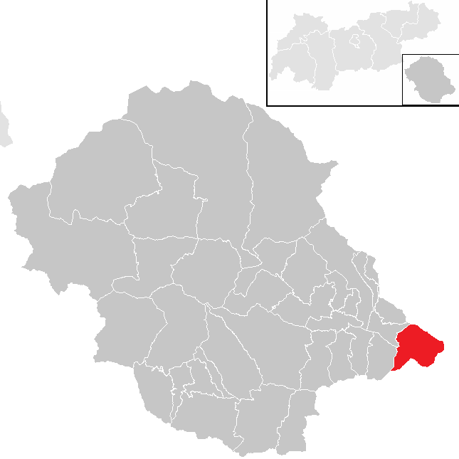 District Lienz